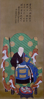 Kanshitsu Genkitsu (1548-1612), Sangakuji, Ogi, Saga, Japan